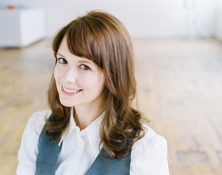 Headshot of Alison Jutzi, taken in the summer of 2011.